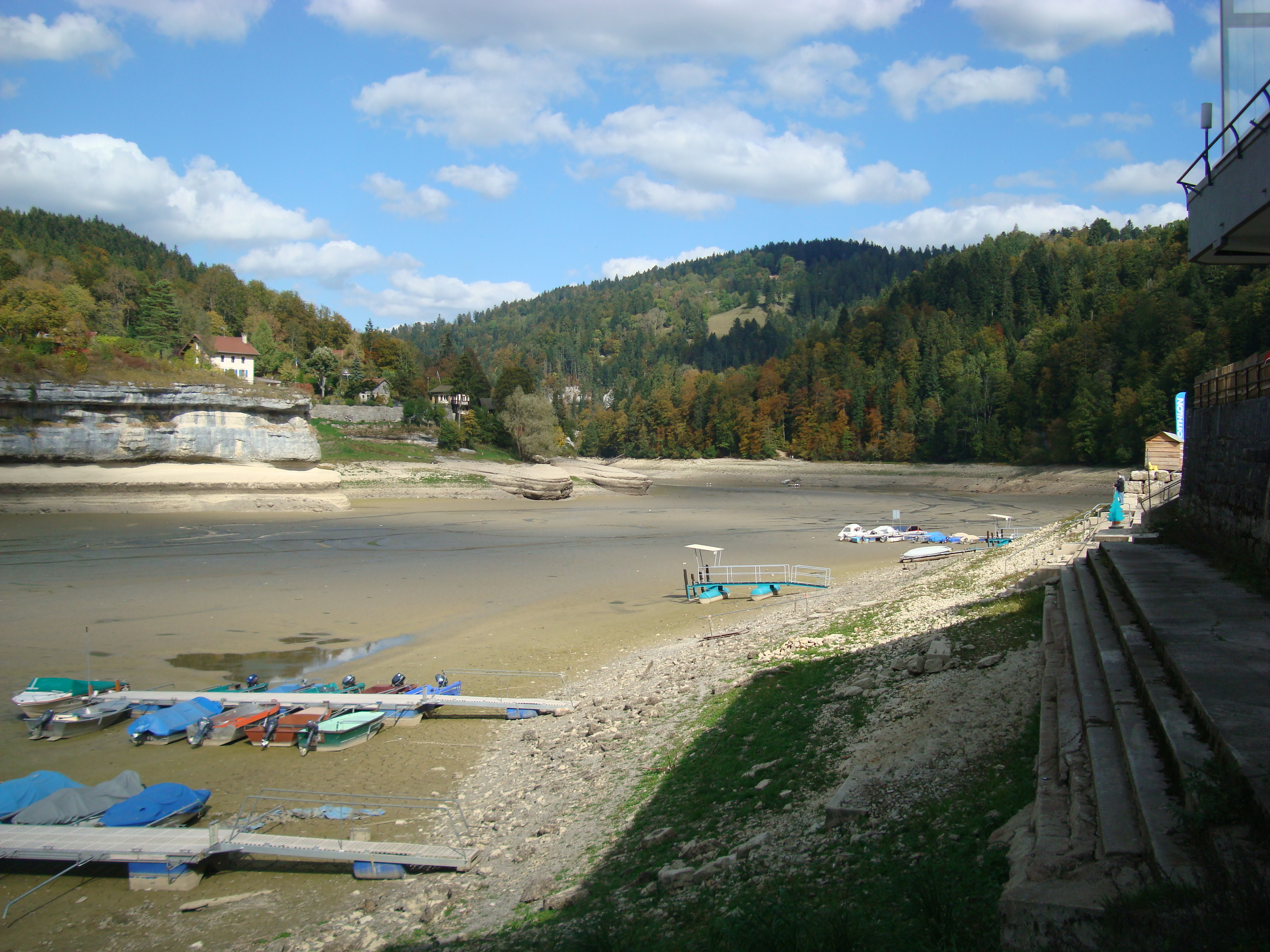 Lac des Brenets in september 2018